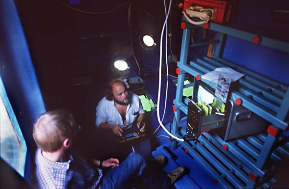 rov and windows atoll - photo Uwe Kils